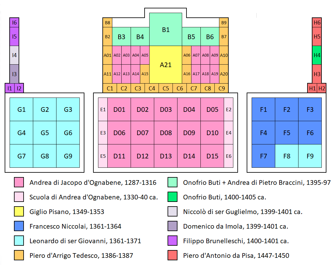 Silver Altar of Saint James